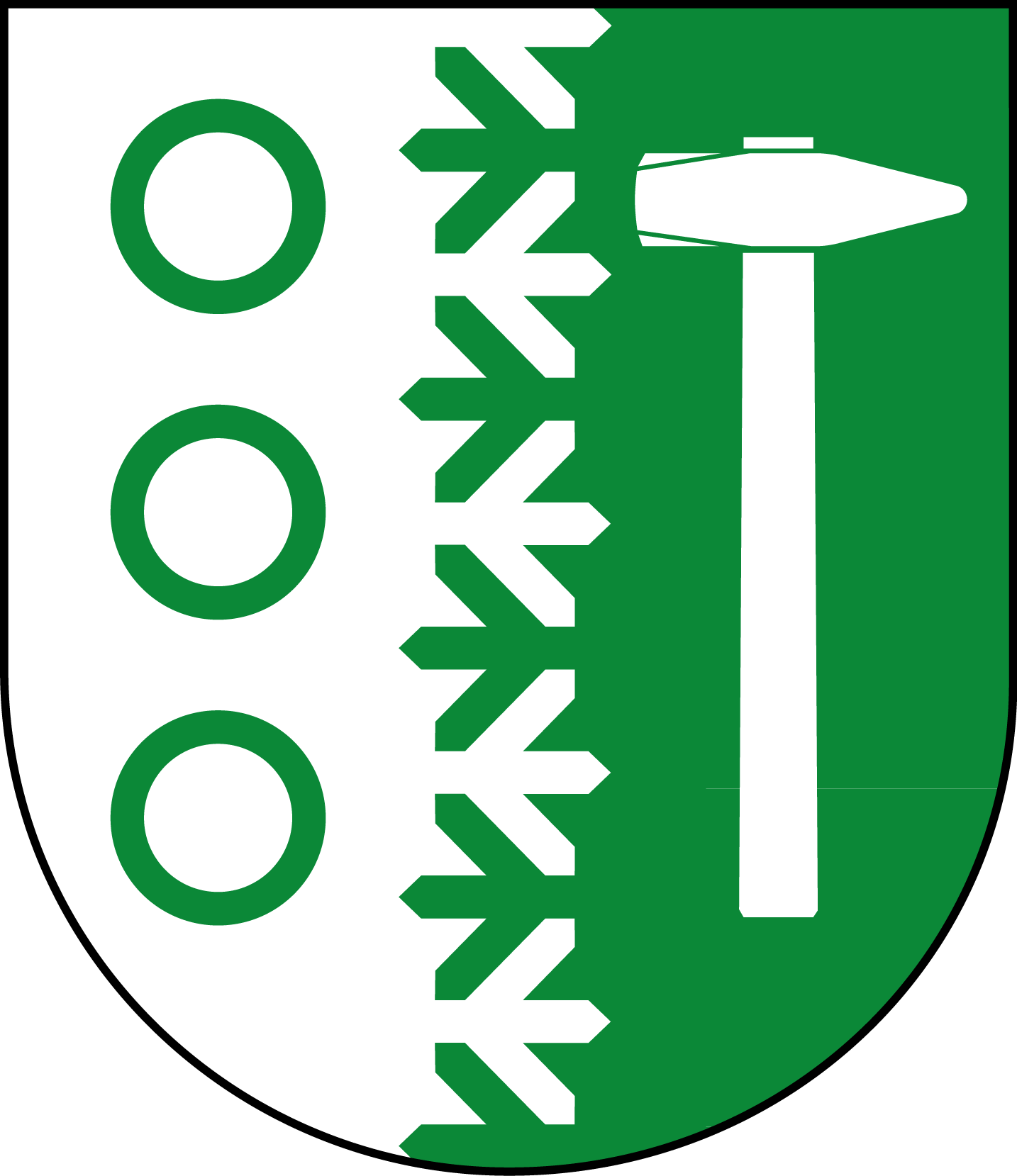 Coat of arms of the municipality of Ockelbo, Sweden. Painted by Vladimir A. Sagerlund when he was the heraldic artist at the National Archives of Sweden (Riksarkivet). This representation of a coat of arms is potentially different from the one used by the armiger (municipality or organisation) in question. = ⇑“Sable, a lionrampant or” This coat of arms was drawn based on its blazon which – being a written description – is free from copyright. Any illustration conforming with the blazon of the arms is considered to be heraldically correct. Thus several different artistic interpretations of the same coat of arms can exist. The design officially used by the armiger is likely protected by copyright, in which case it cannot be used here.Individual representations of a coat of arms, drawn from a blazon, may have a copyright belonging to the artist, but are not necessarily derivative works. Further information: Commons:Coats of arms and Template:Coa blazon